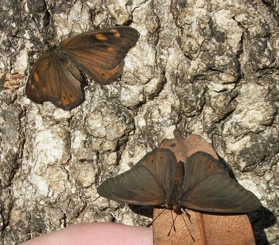 Boisduval's Tree Nymph (Sevenia boisduvali boisduvali) female on the left and male on the right, at Ilanda Wilds, KwaZulu-Natal, South Africa